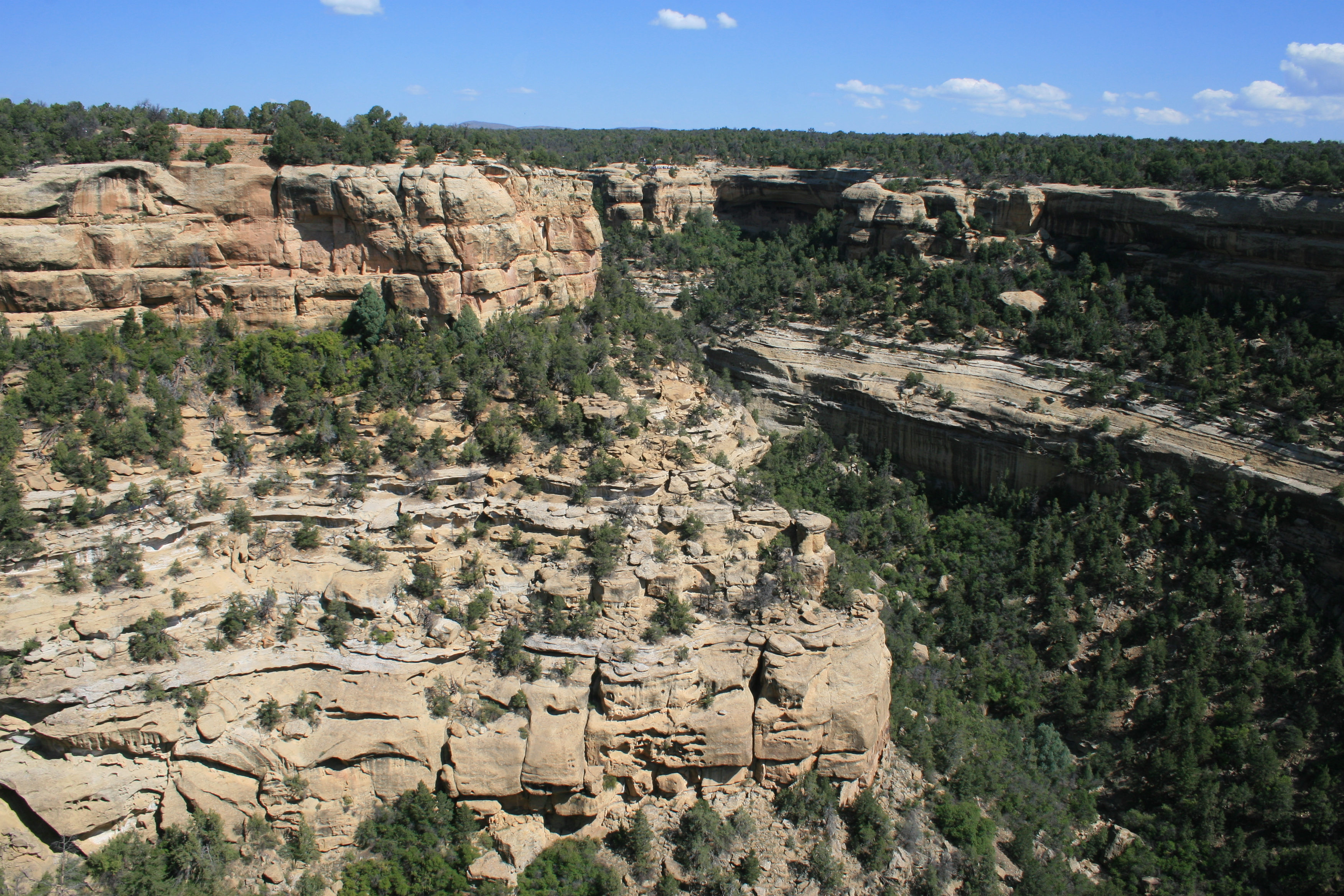 Mesa Verde National Park, Colorado Junction of Fewkes Canyon (left side) and Cliff Canyon (right side), as seen from Sun Point View. At the top of the left side, the ruins of Sun Temple are to be seen, and at the right, within the Cliff Canyon, is the shadowed Cliff Palace.